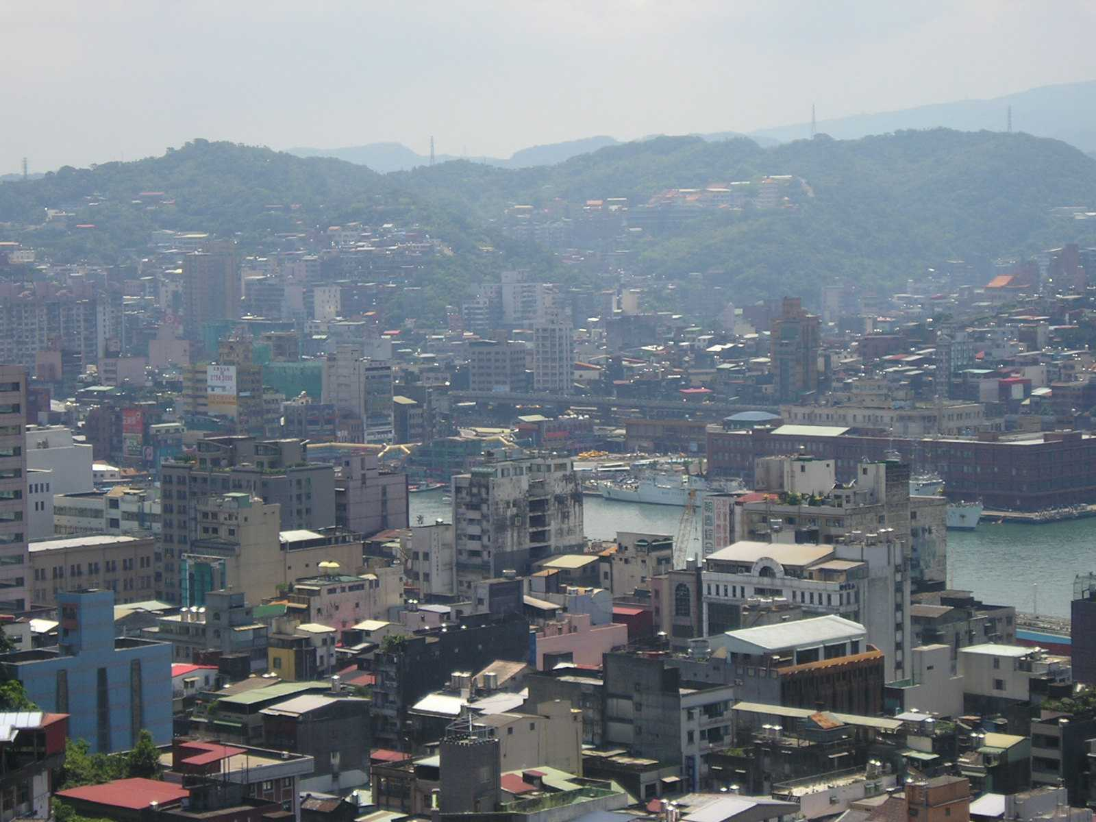 Keelung city from near Zhōngzhèng park.